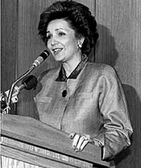 Suzanne Mubarak, former first lady of Egypt.